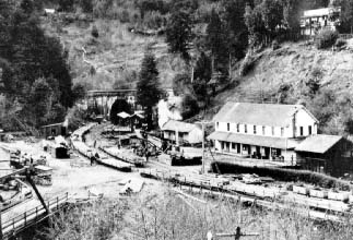 Wright, California, 1907